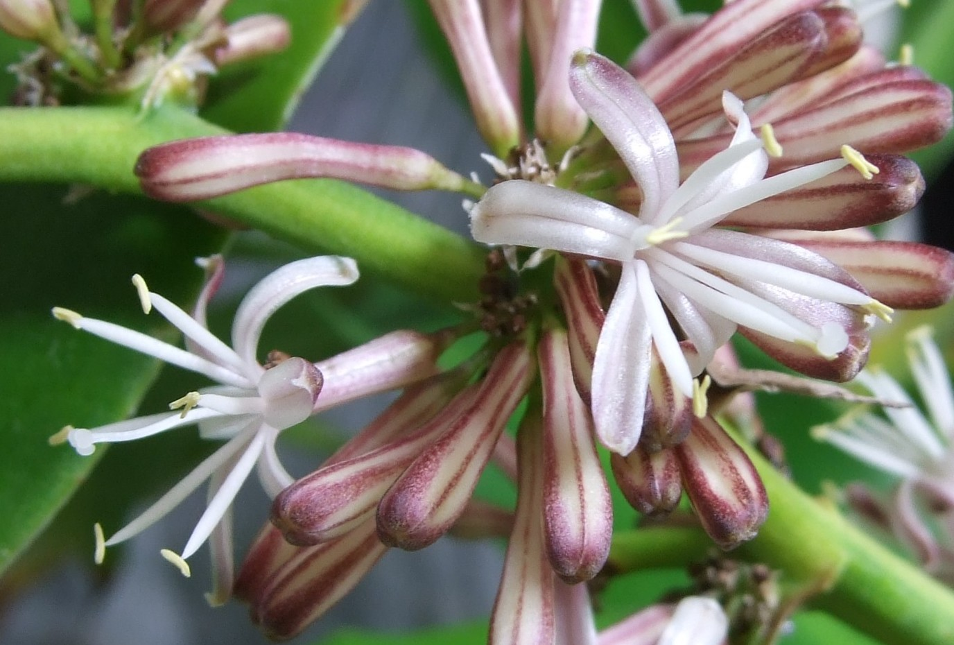 Flower of Dracaena fragrans